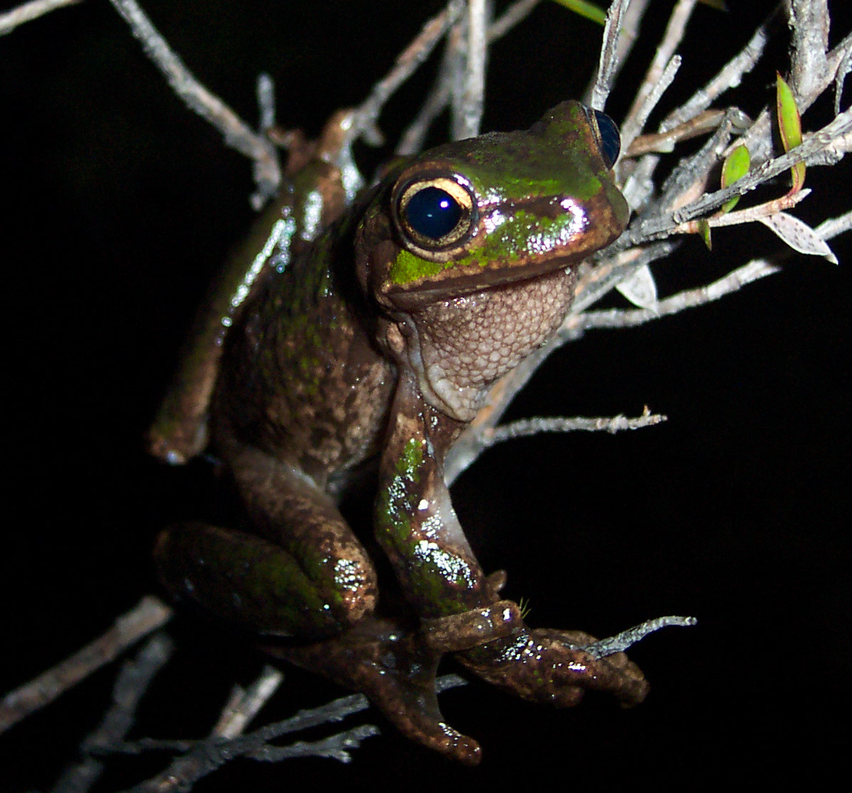 A Tasmanian Tree Frog, (Litoria burrowsae), from Queenstown, Tasmania.